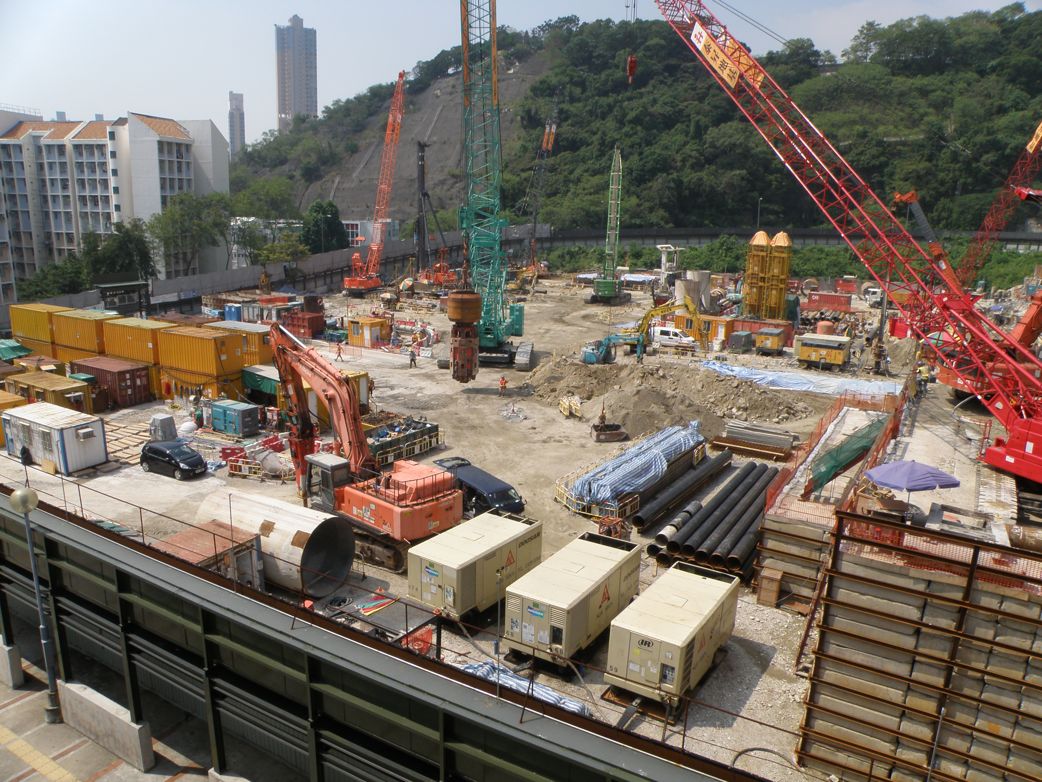 Pak Tin Estate phase 7 in Shek Kip Mei, Hong Kong.